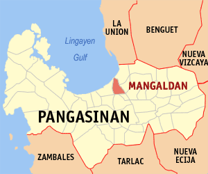 Map of Pangasinan showing the location of Mangaldan